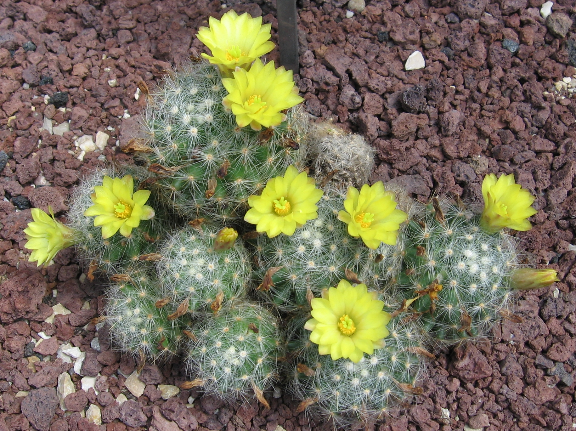 Mammillaria baumii in the Royal Botanic Garden, Madrid